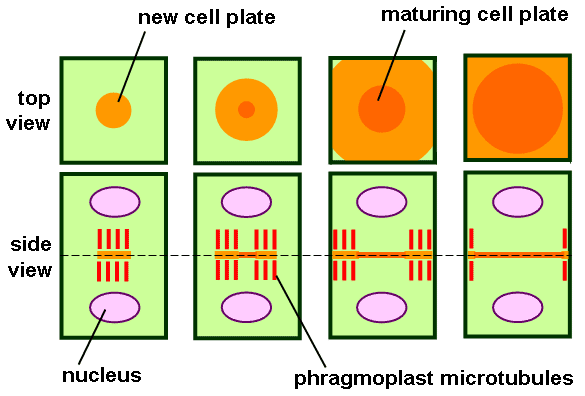 Phragmoplast and cell plate formation in a plant cell during cytokinesis. Left side: Phragmoplast forms and cell plate starts to assemble in the center of the cell. Towards the right: Phragmoplast enlarges in a donut-shape towards the outside of the cell, leaving behind mature cell plate in the center. The cell plate will transform into the new cell wall once cytokinesis is complete. References P.H. Raven, R.F. Evert, S.E. Eichhorn (2005): Biology of Plants, 7th Edition, W.H. Freeman and Company Publishers, New York, ISBN 0-7167-1007-2